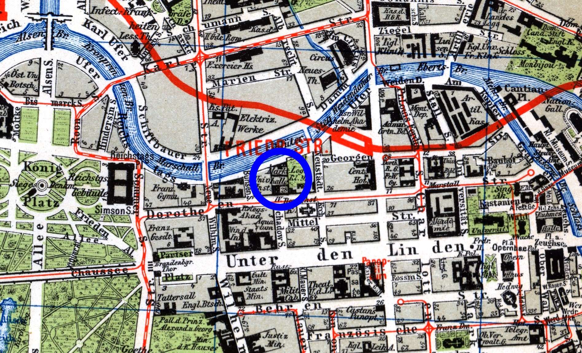 Berlin - Markthalle IV, situation plan 1896